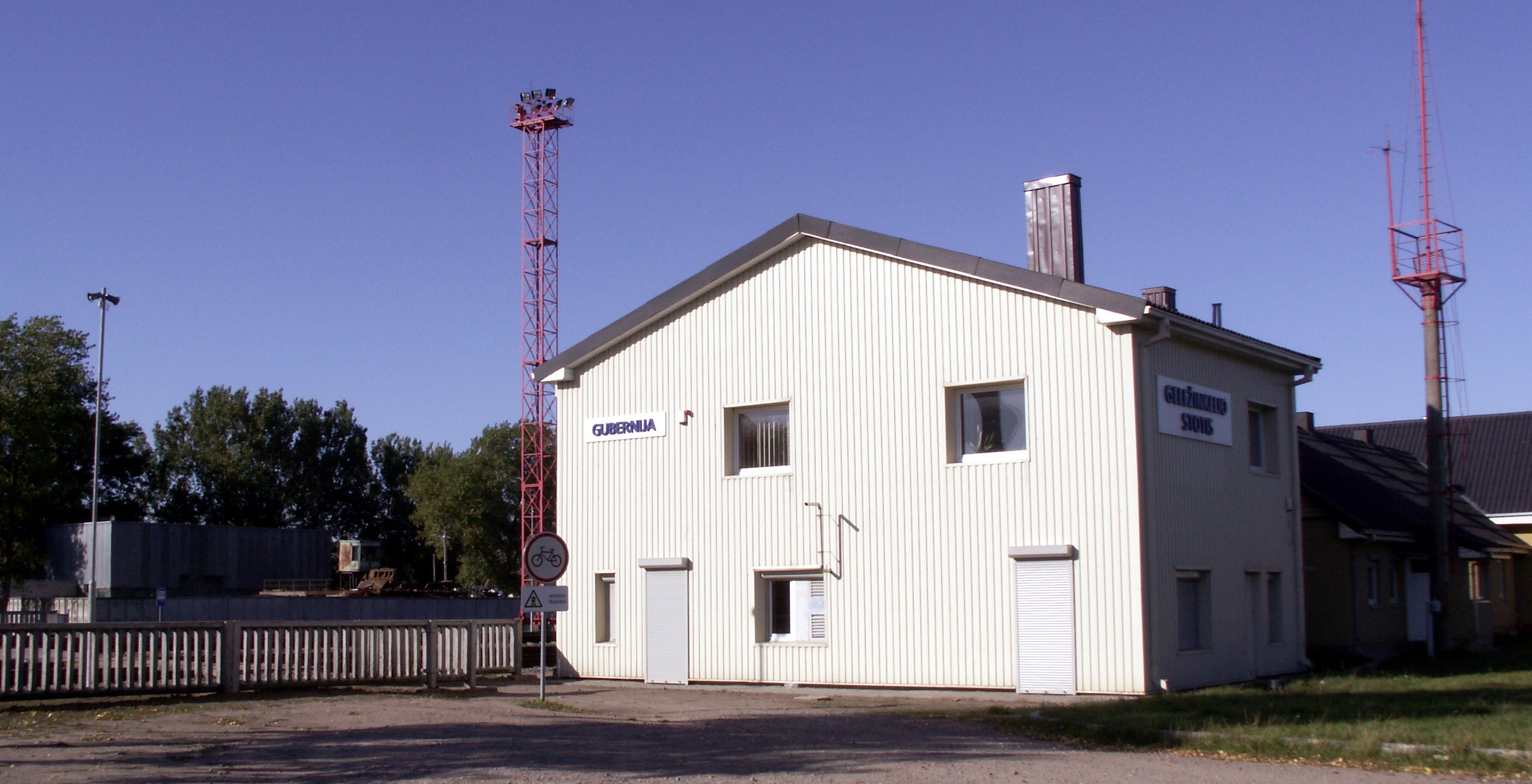 Gubernija railway station in Šiauliai, Lithuania